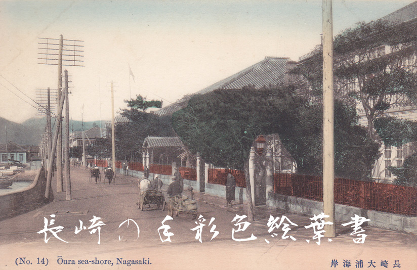 Japanese hand tinted postcard view of the Bund in Oura, Nagasaki